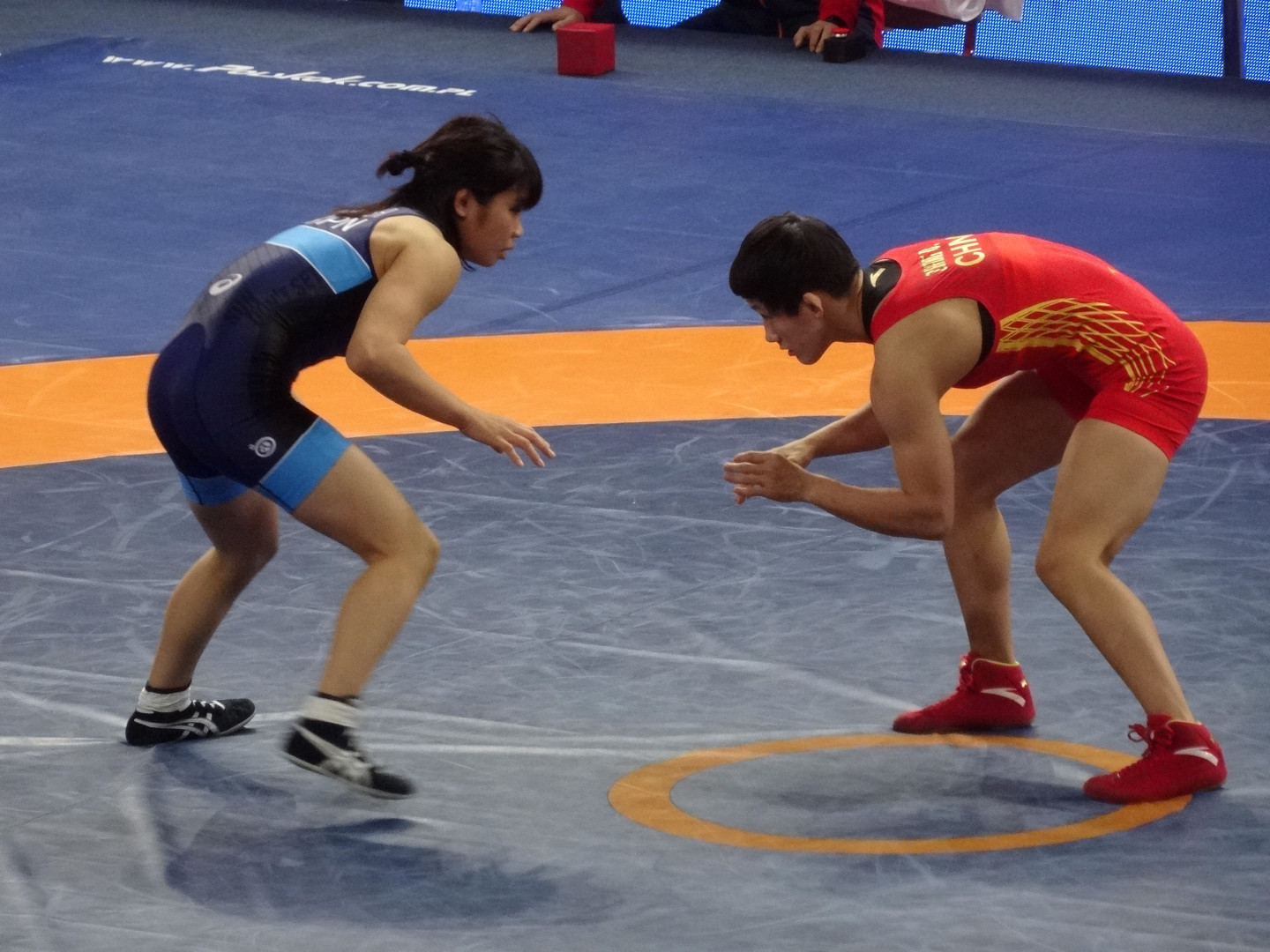 U-23 World Wrestling Championship Bydgoszcz 2017. Finals in women's wrestling